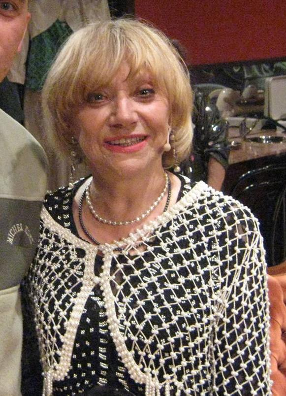 Actress Krystyna Sienkiewicz.